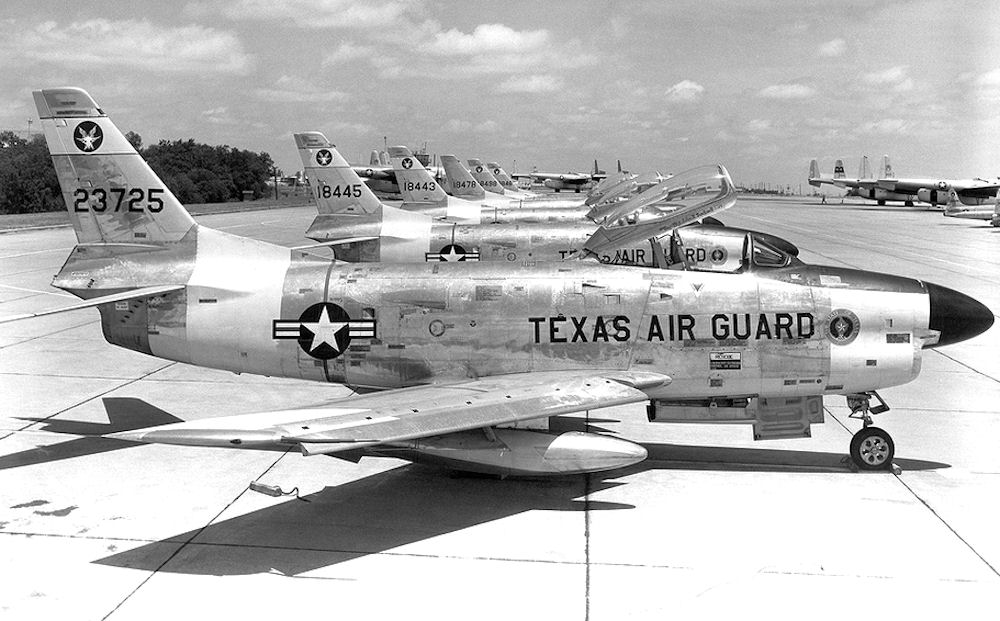 181st Fighter-Interceptor Squadron - F-86D Interceptors, Naval Air Station Dallas, Texas, 1958. Aircraft identified are: North American F-86D-40-NA Sabre 52-3725 North American F-86D-35-NA Sabre 51-8445 North American F-86D-35-NA Sabre 51-8443 North American F-86D-35-NA Sabre 51-8478